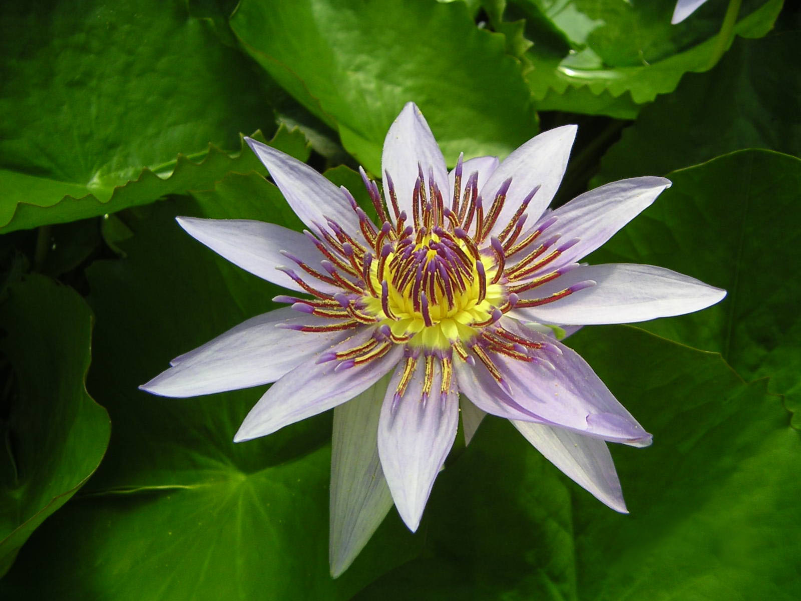 Nymphaea colorata. Description on the sign: "Nymphaea colorata Peter — Ost-Afrika"